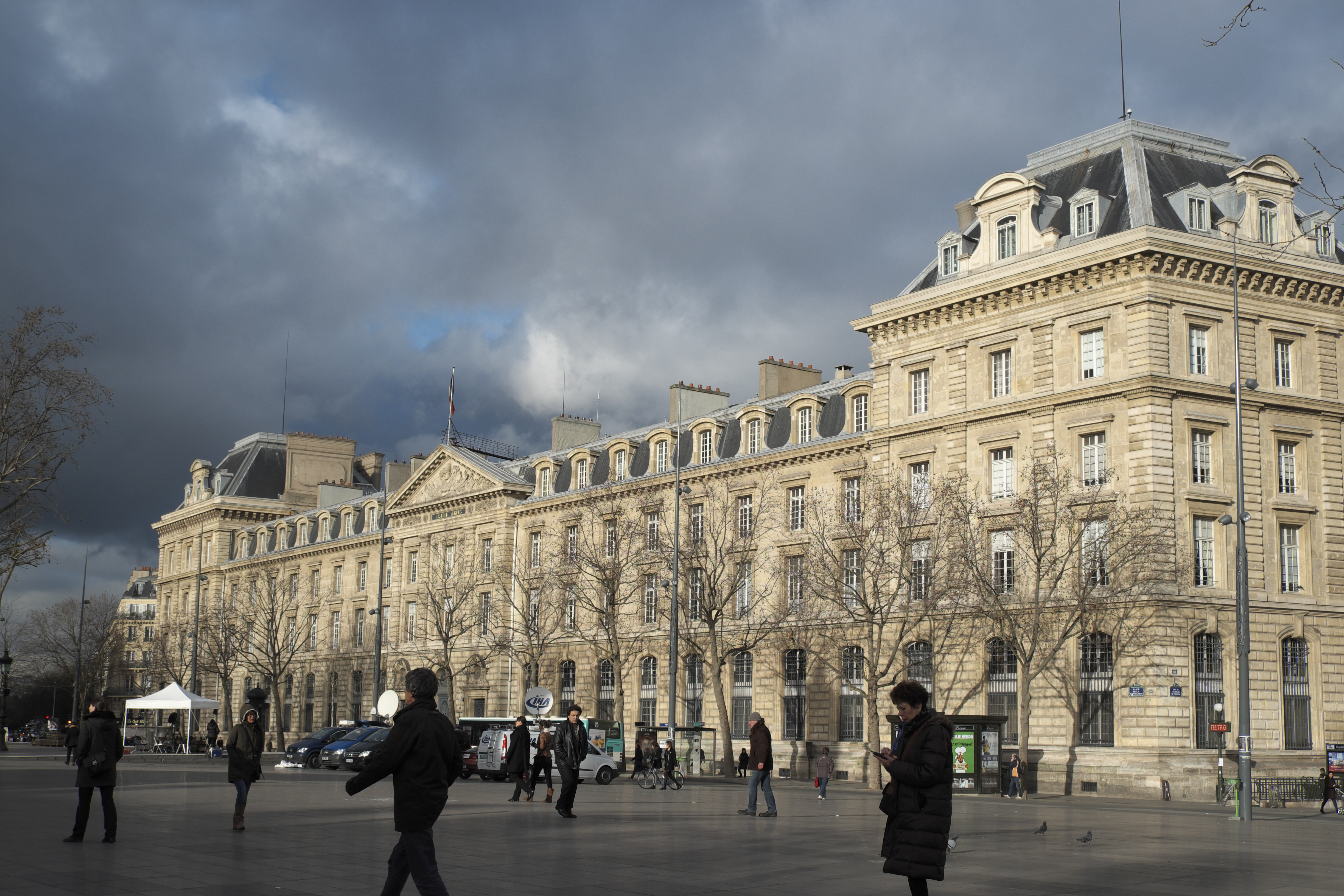 Caserne Vérines